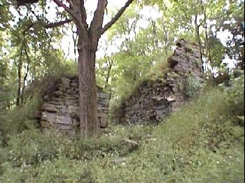 Ruin of Kalich Castle on a hill of the same name above Třebušín, Litoměřice District, Czech Republic.